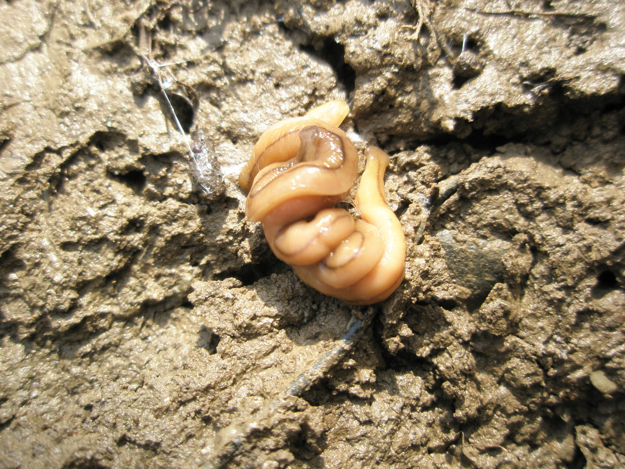 Two specimens of Bipalium adventitium probably mating. Ohio, USA